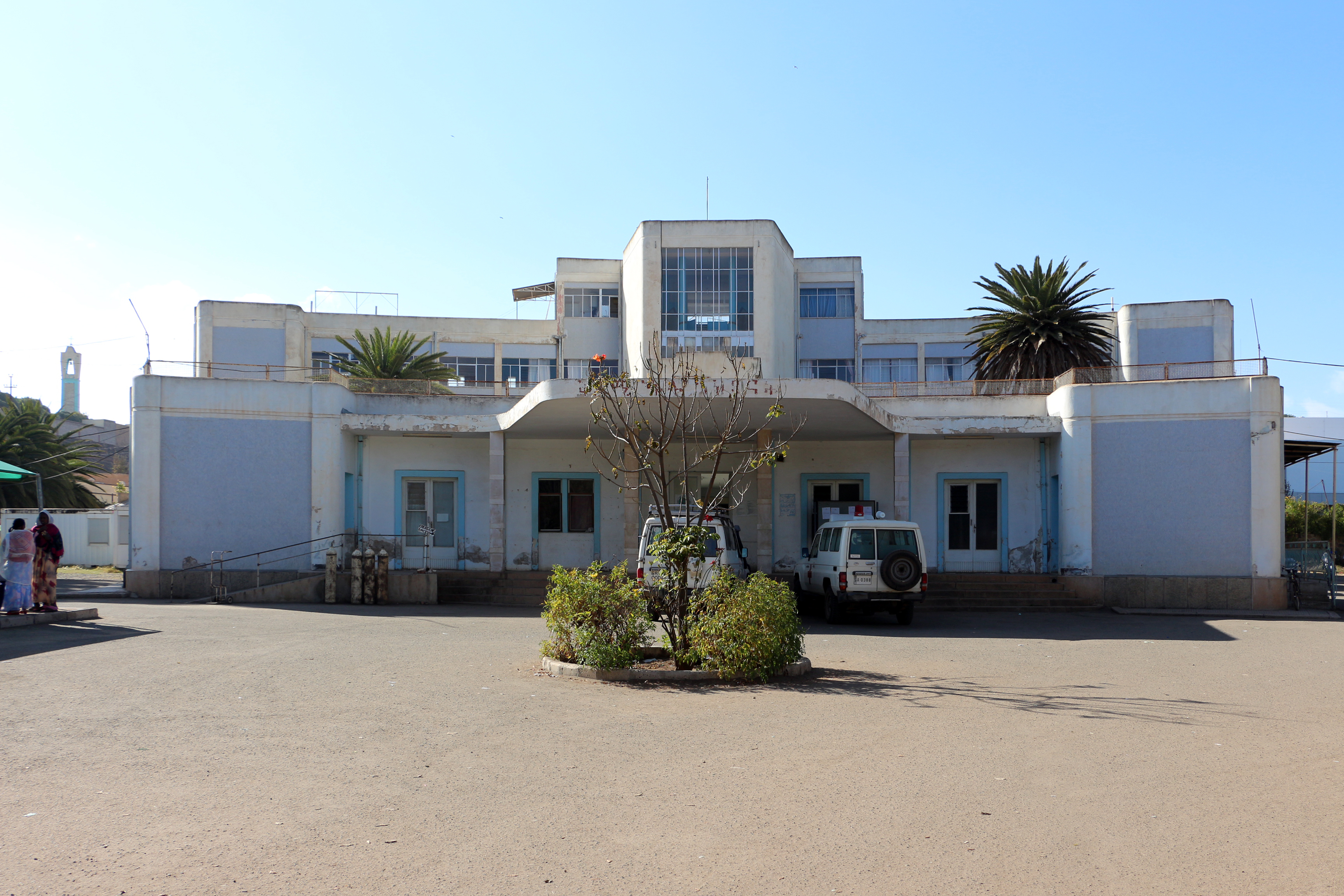 Buildings in Asmara